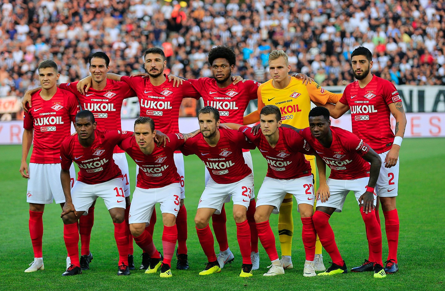 PAOK VS. Spartak Moscow 8 august 2018